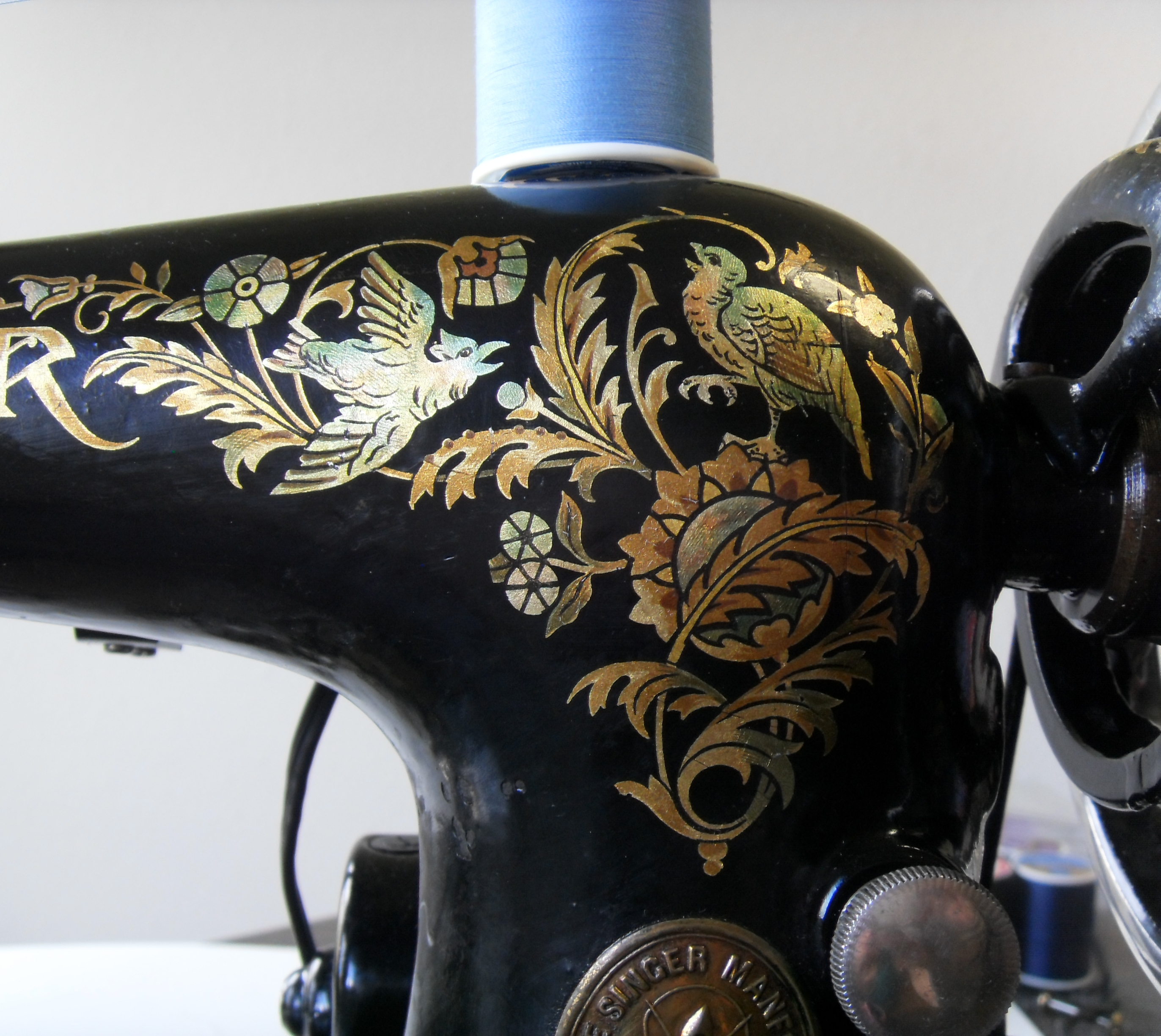 Singer model 27, closeup of pheasant decal